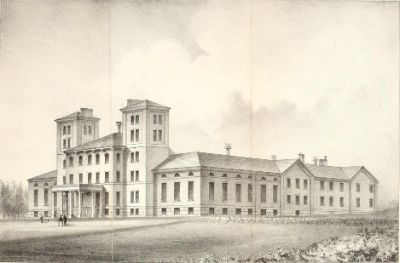 State Reform School for boys in Westborough Massachusetts original building